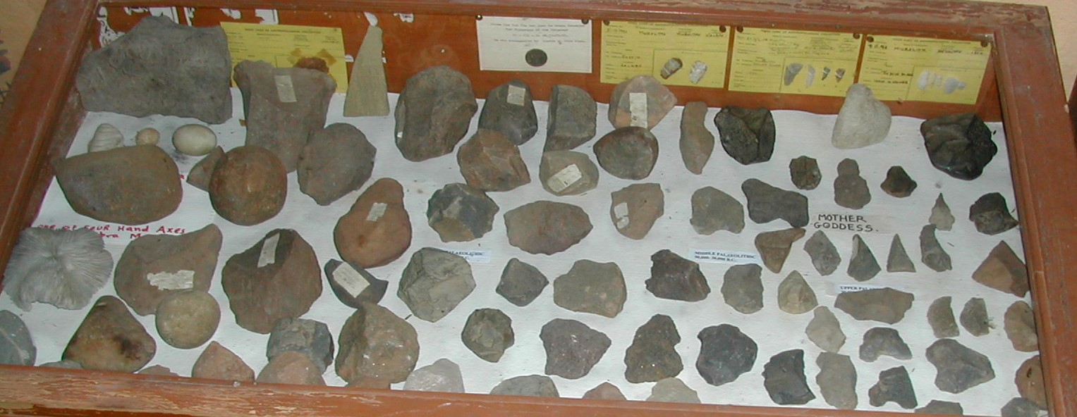 Cabinet1